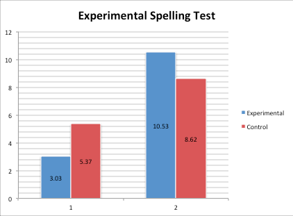 Experimental Spelling Test Pretest and Posttest results for Experimental and Control groups